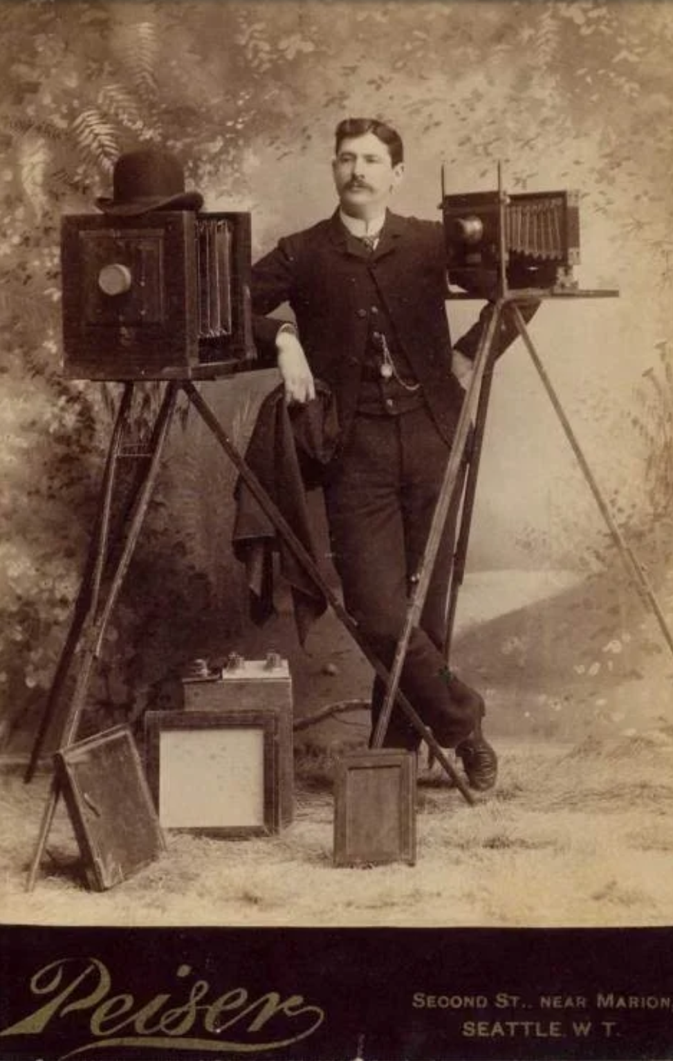 Self-portrait of Seattle photographer Theo. Peiser